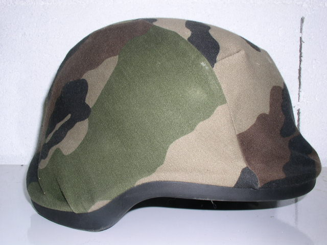 Helmet model Spectra